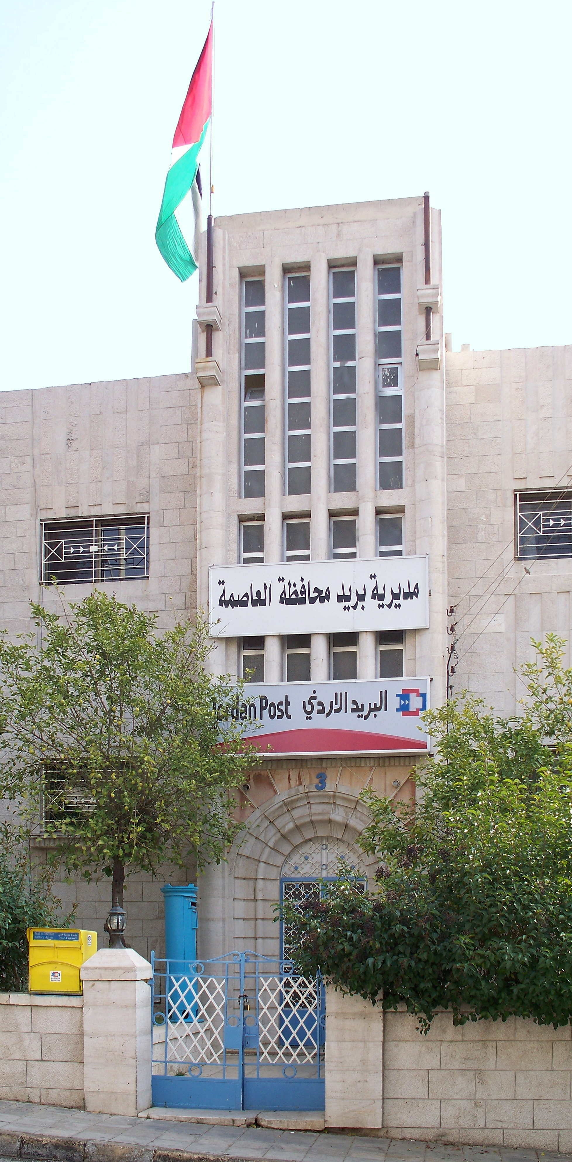 Post building in Amman, Jordan, 2009.